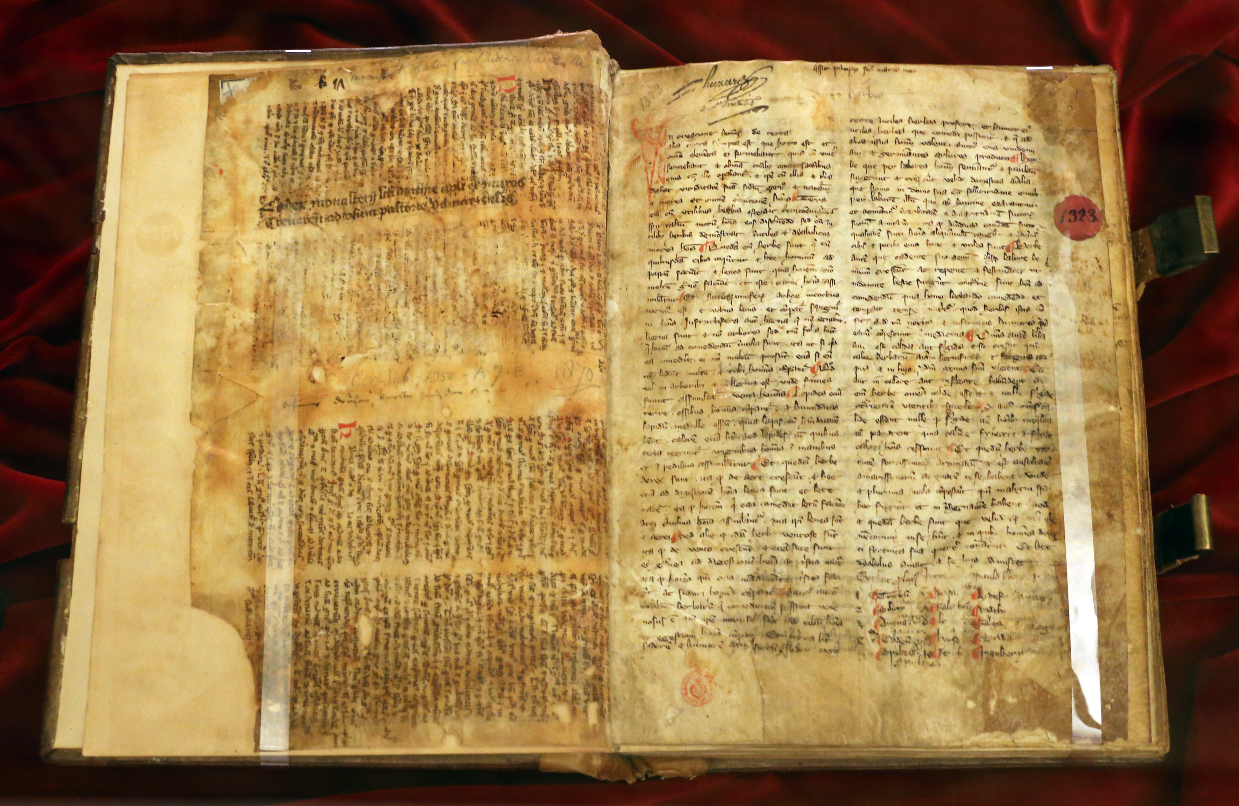 Biblioteca Medicea Laurenziana manuscripts